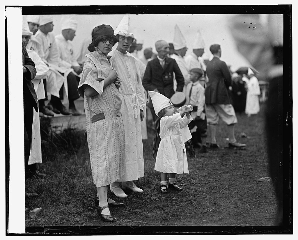 Title: Jane Snyder at K.K.K. services, 8/9/25 Abstract/medium: 1 negative : glass ; 4 x 5 in. or smaller